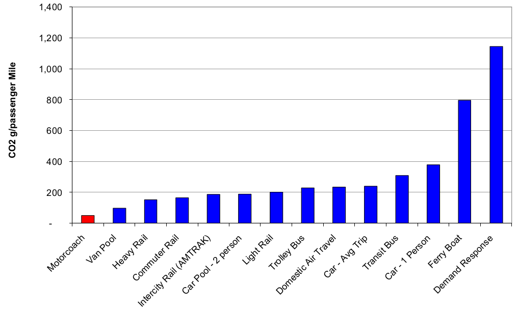 Average carbon dioxide emissions (grams) per passenger mile (USA). Based on 'Updated Comparison of Energy Use & CO 2 Emissions From Different Transportation Modes, October 2008' (Manchester, NH: M.J. Bradley & Associates, 2008), p. 4, table 1.1 (